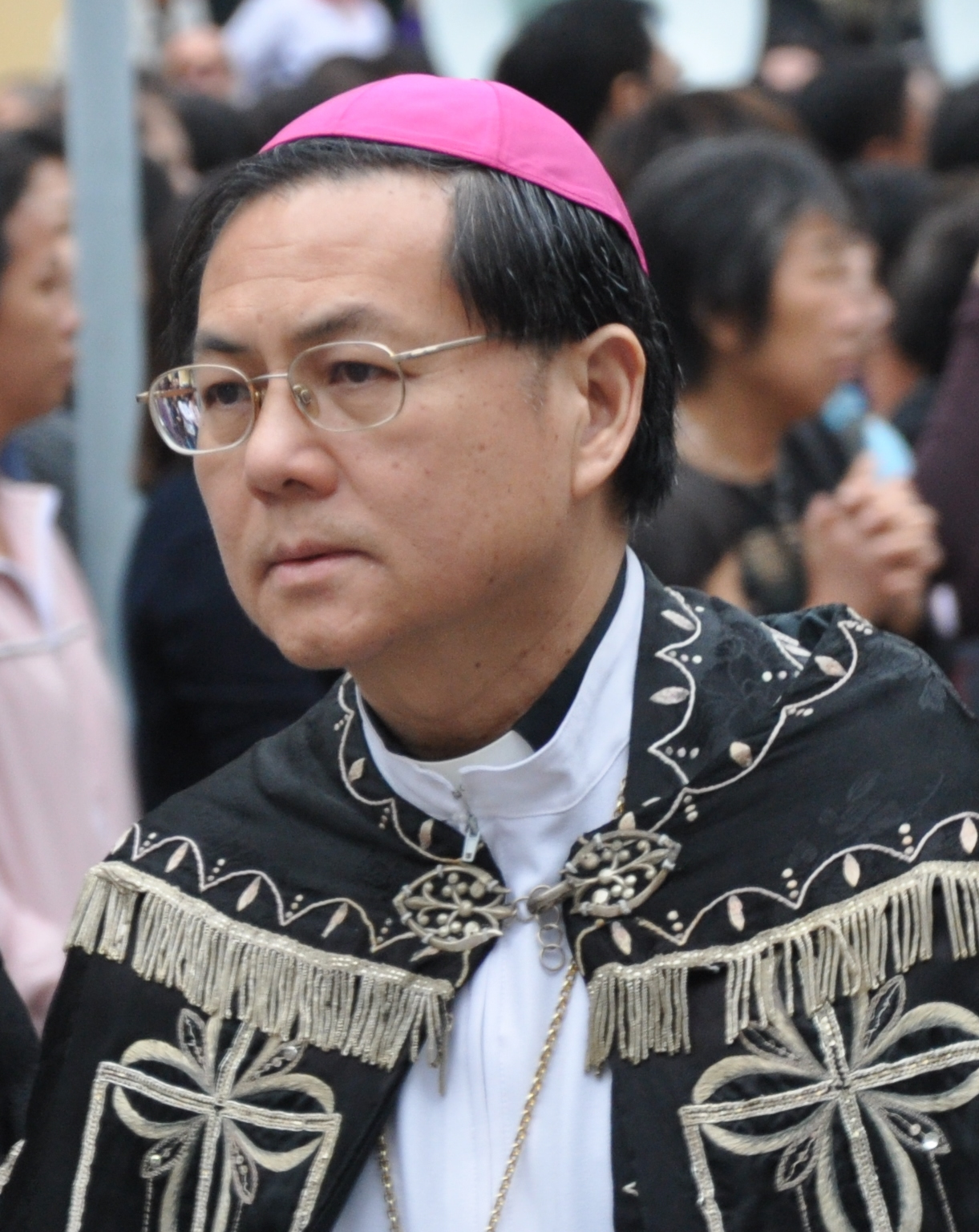 Bishop Jose Lai, 23rd Bishop of Macau Diocesan